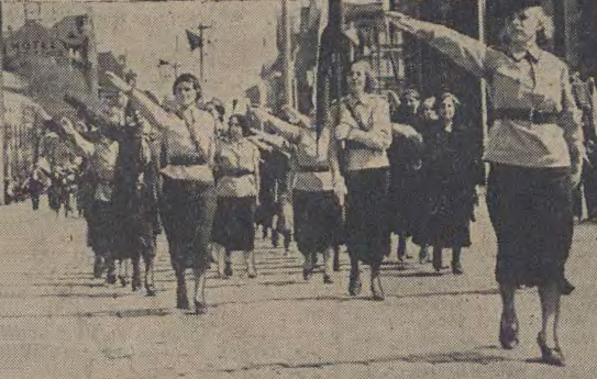 Membership of Stronnictwo Narodowe on 3rd May Day celebration in Poznań.